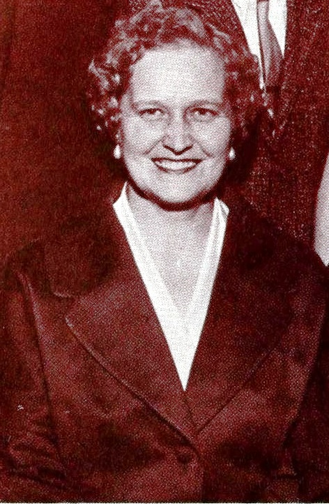 Photograph of Nada Rich Brockbank, wife of Bernard P. Brockbank. Bernard P. Brockbank was a general authority of The Church of Jesus Christ of Latter-day Saints (LDS Church).